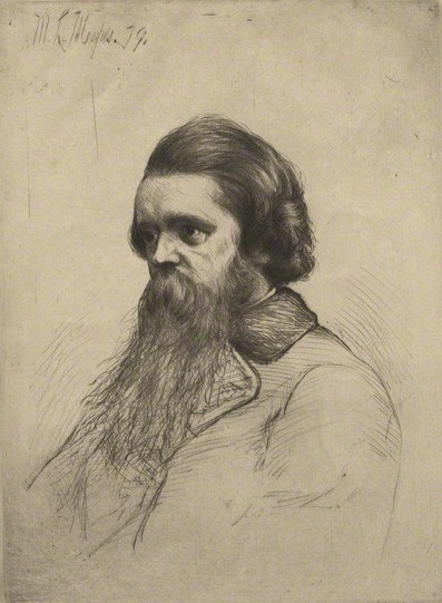 Portrait of George Barnett Smith (1841–1909), English author and journalist.